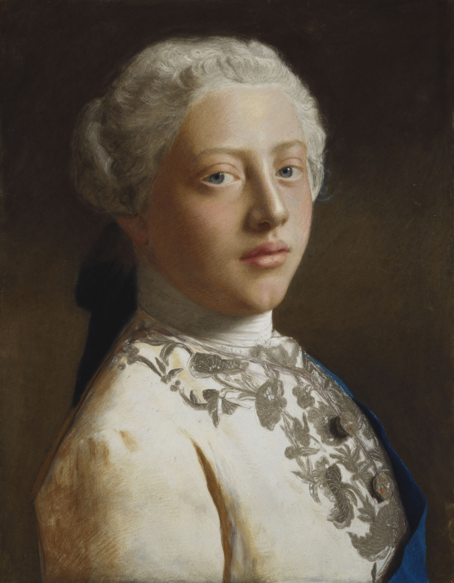 The pigment Liotard used for the Prince's coat, which was bright red, has faded due to light exposure for over 260 years. The other colors used remain vibrant.